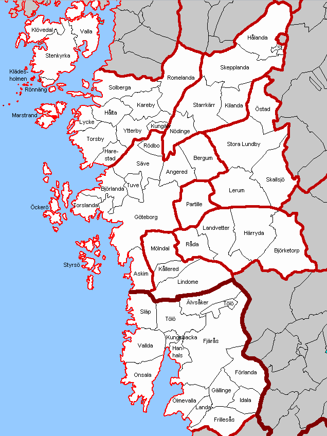 old municipalities of Göteborg, Öckerö, Kungsbacka, Partille, Mölndal, Lerum, Kungälv, Ale, Härryda, Tjörn.